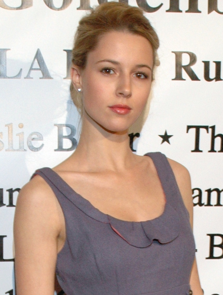 Alona Tal on the Children Uniting Nations Academy Award Viewing Party red carpet, at the Beverly Hilton, Beverly Hills, Los Angeles, California. Held preceding the start of the Oscar telecast.